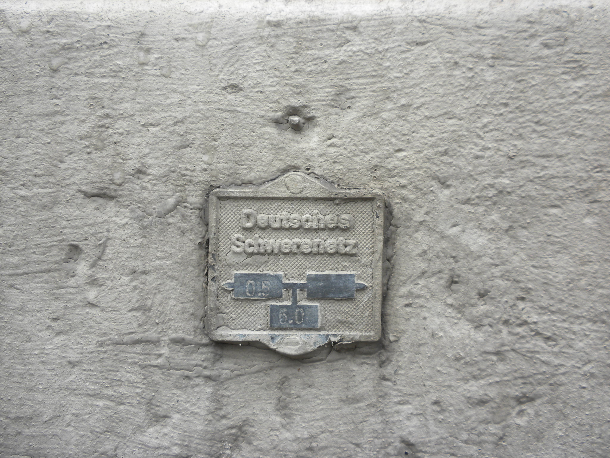 Detail of a identification badge of the German Gravity Network 1962 at plinth of the baroque church St. Trinitatis in Wolfenbüttel.